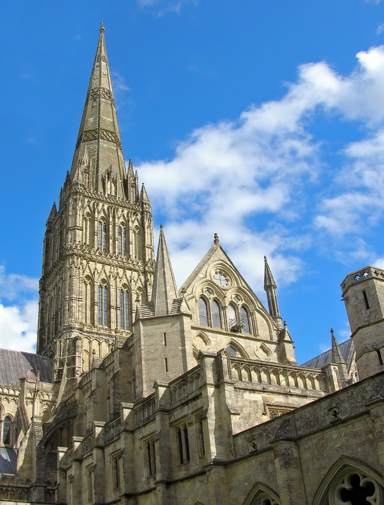 Spire of Salisbury Cathedral, Wiltshire